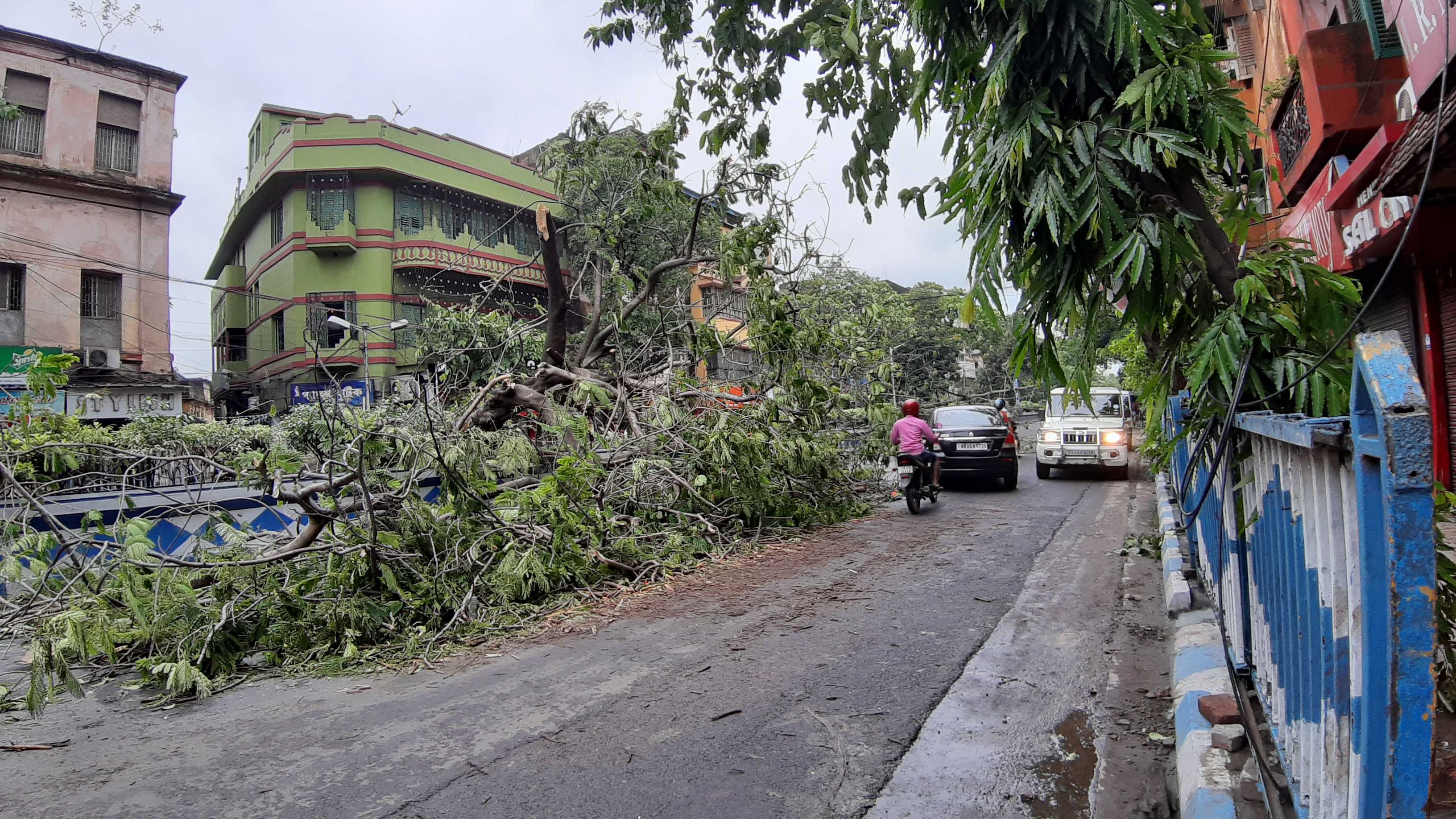 Situation of kolkata after Amphan Cyclone.